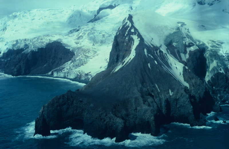 Photo of Cape Valdivia, Bouvet Island, Norwegian uninhabited island in the South Atlantic Ocean. The image is mirrored.